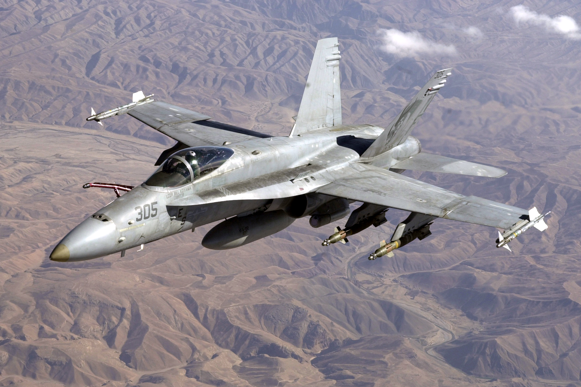 Operation Enduring Freedom, Oct. 26, 2001 --Following early morning bombing missions, an F-18 “Hornet” flies in the post-contact position during an aerial refueling mission with a KC-135R from the 319th Air Expeditionary Group. The 319th AEG is deployed to a forward deployed location in support of Operation Enduring Freedom. U.S. Air Force photo by Tech Sgt. Scott Reed (RELEASED)